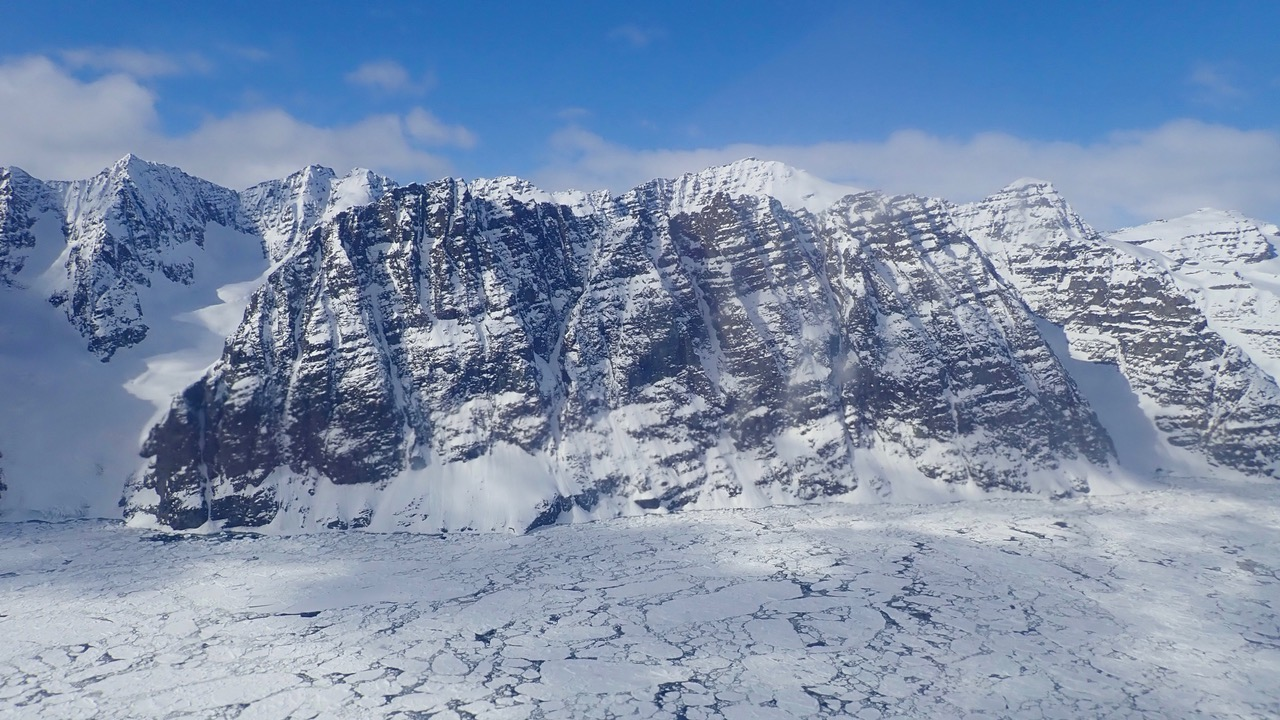 Mt. Gunnbjørn, the tallest mountain in Greenland, from the center flowline of Kong Christian IV Glacier. Photo taken during an Operation IceBridge flight on Apr. 21, 2018. CREDIT: NASA/Joe MacGregor